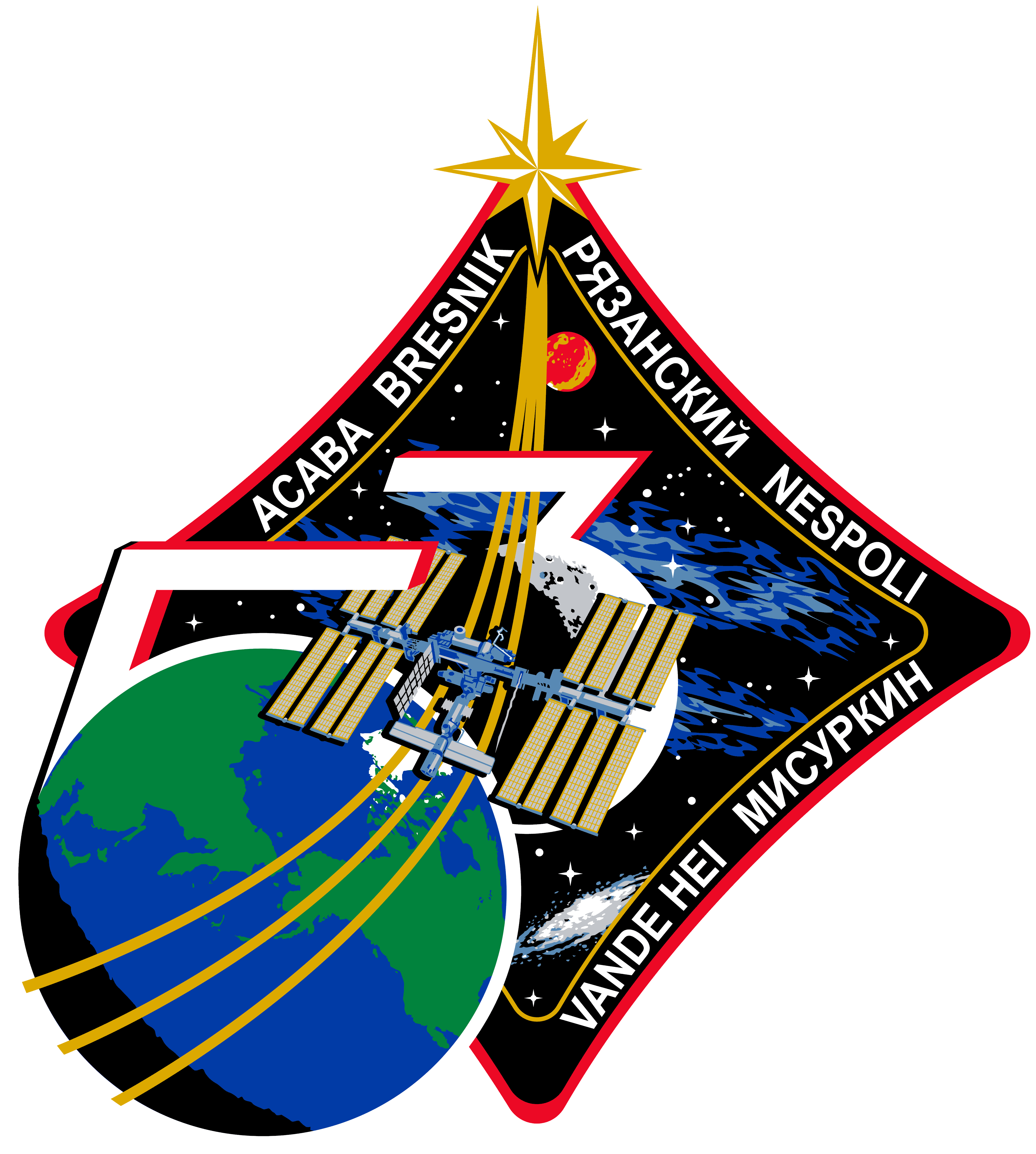 The Expedition 53 crew insignia The International Space Station is our launch pad into the future of human space exploration. Collectively, our world stands at the cusp of incredible developments as a spacefaring species. Onboard the space station we continue to evolve the technologies vital to the sustainment and longevity of humans in the harsh realities of living without gravity or the protection of our atmosphere. These self-sustaining or regenerative technologies continually developed aboard the space station not only improve life here on Earth, but they are essential to human beings existence beyond low-Earth orbit (LEO). The space station is the linchpin for this next great phase of development and is instrumental in expanding the use of space, not only as a worldclass science laboratory, but also as a destination for next-generation space vehicles. This journey beyond LEO is depicted in the Expedition 53 patch as we, the crew, will endeavor to accomplish the work that allows future missions to further explore our solar system. This journey will only be accomplished as an international team, represented by our multinational crew as well as by the many countries depicted on the globe. The myriad of stars represent the untold number of passionate and supremely dedicated people that endeavor across the planet daily to make the space station the amazing vehicle it is as well as prepare us for the next great steps forward in space exploration.